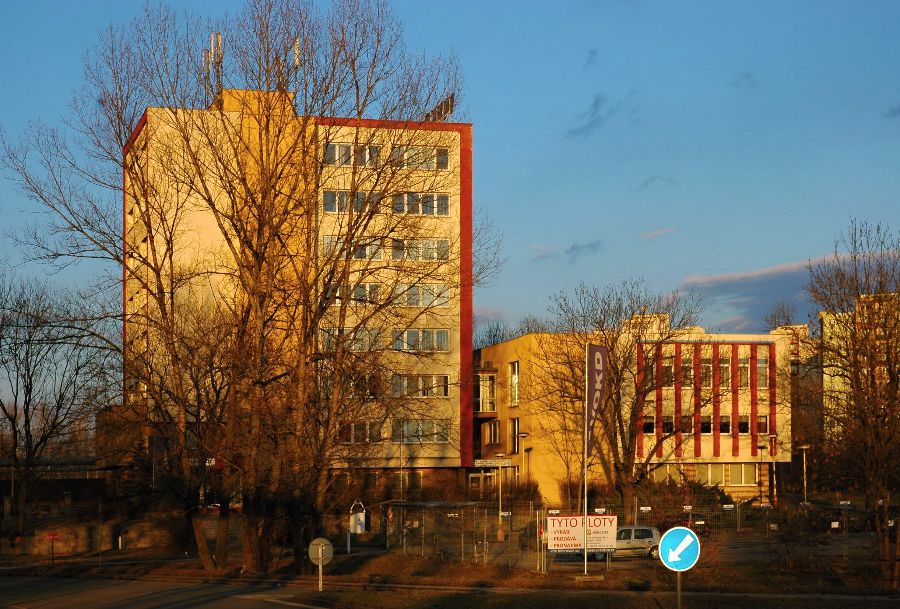 Headquarter of VOKD, Ostrava, Czech Republic